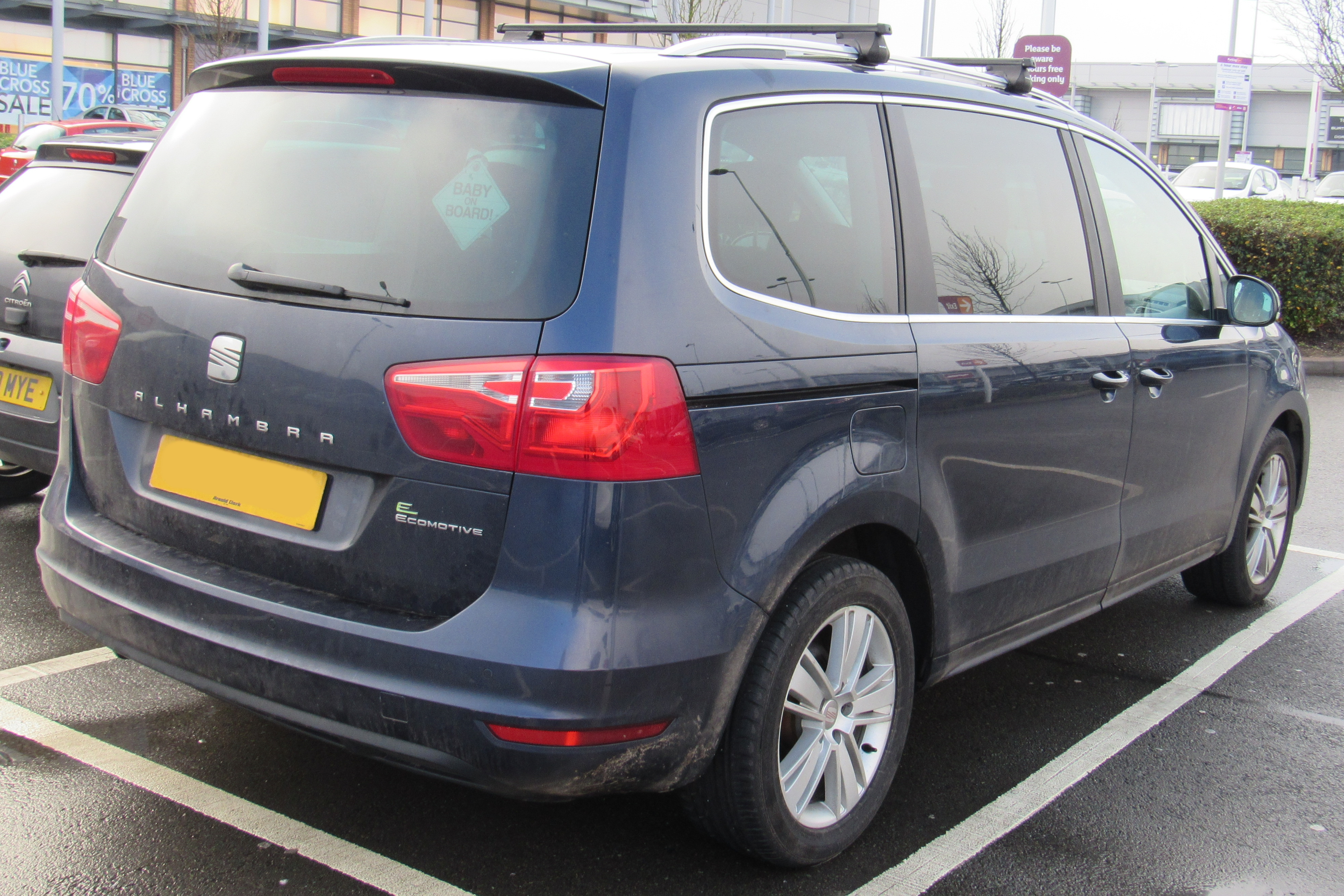 2012 SEAT Alhambra SE Ecomotive CR 2.0 Rear Taken in Leamington Spa